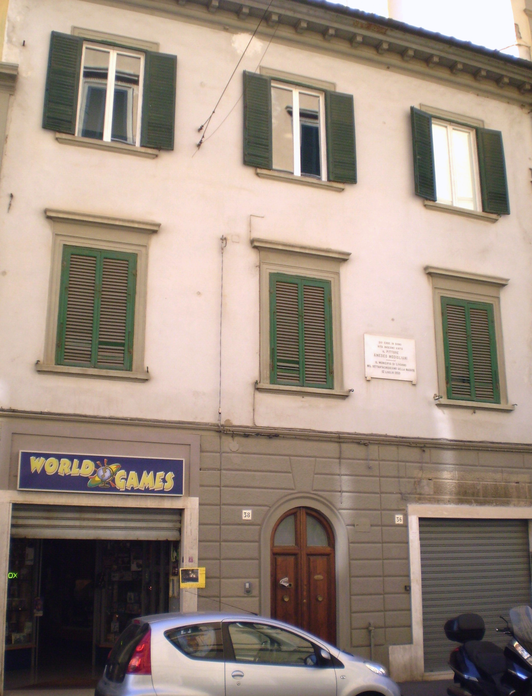 Livorno: birthplace of Amedeo Modigliani, Via Roma 38.